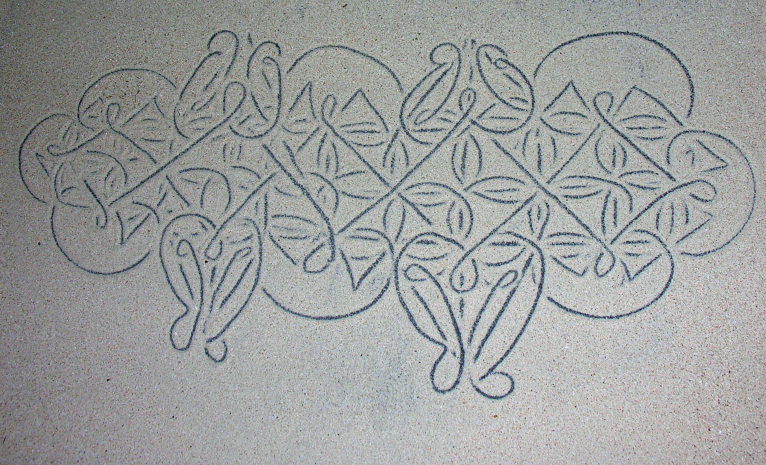 Image of sand drawing from Vanuatu.